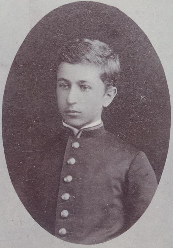 Aleko Konstantinov.